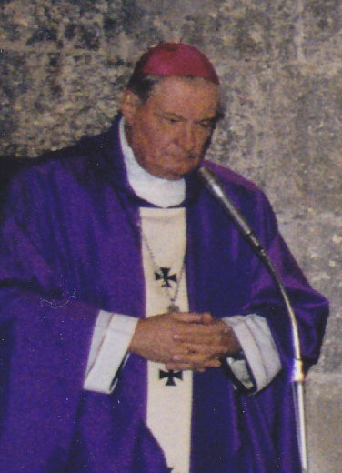 Alessandro Plotti, former Archbishop of Pisa.